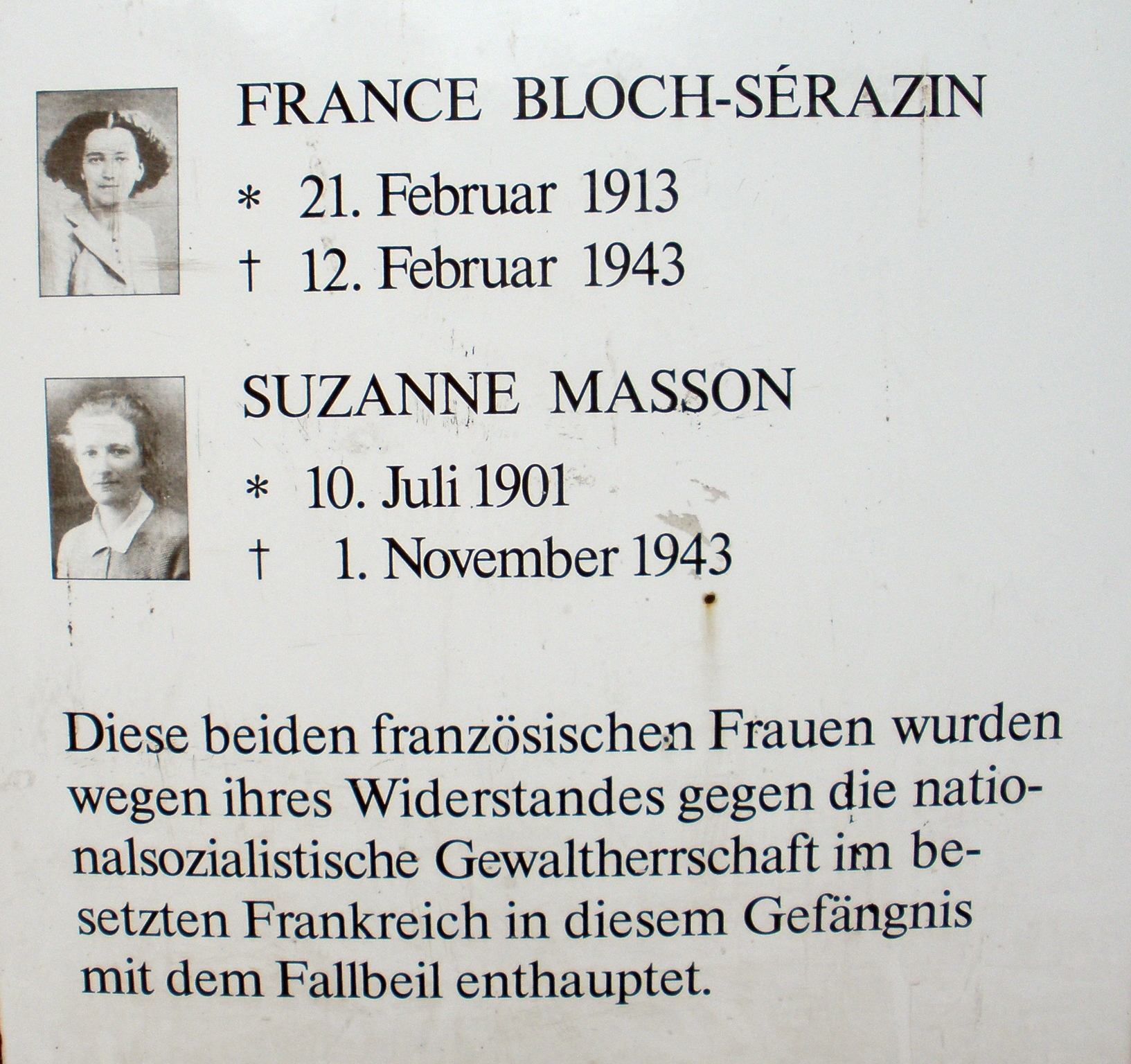 Commemorative plaque at the backside of Untersuchungshaftanstalt Hamburg, Germany.